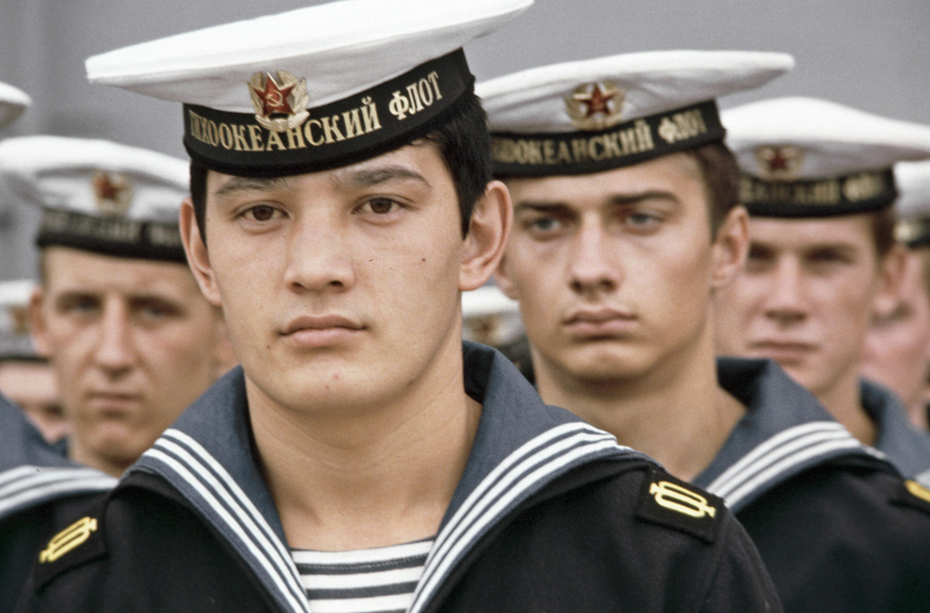 “Sailors of the Red Banner Pacific Fleet”. Sailors of the Novorossiisk cruiser, Red Banner Pacific Fleet.